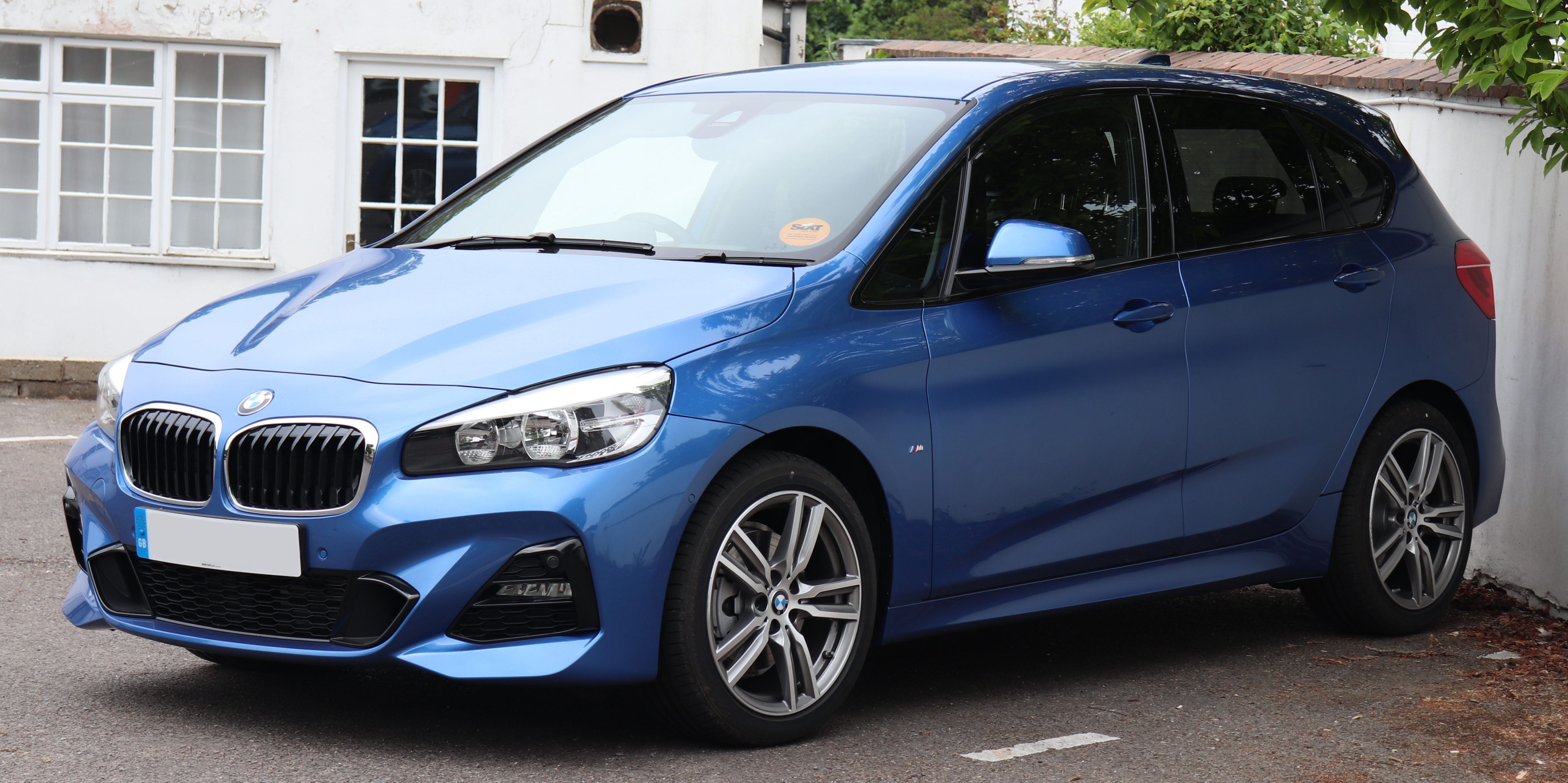 2018 BMW 220D Active Tourer xDrive M Sport Automatic facelift 2.0 Taken in Leamington Spa